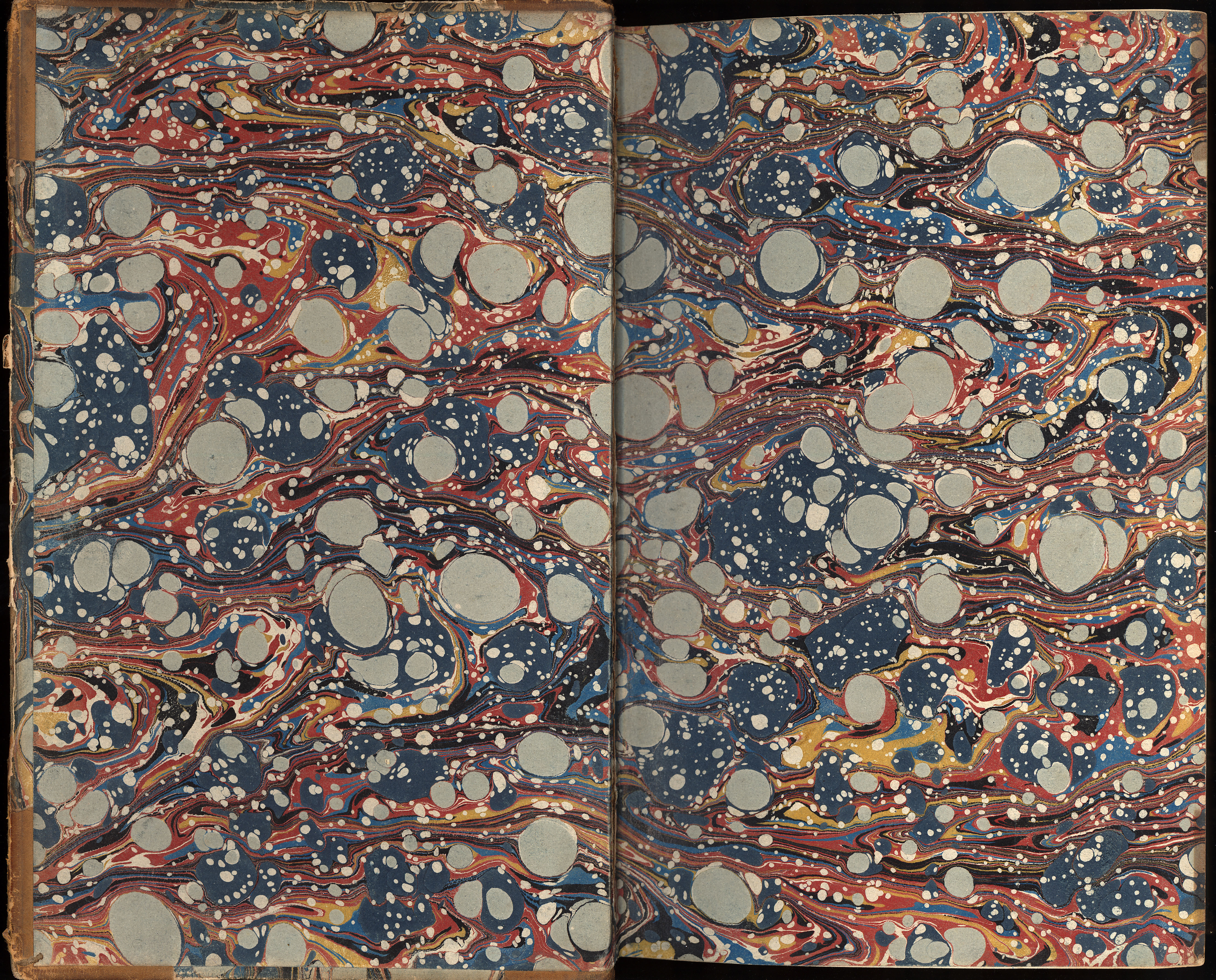 Handcrafted marbled endpaper (identical with cover) of a book manually bound in England around 1830.